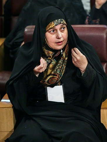 Parvaneh Salahshouri in the conference of elected moderates and reformists of Iran.